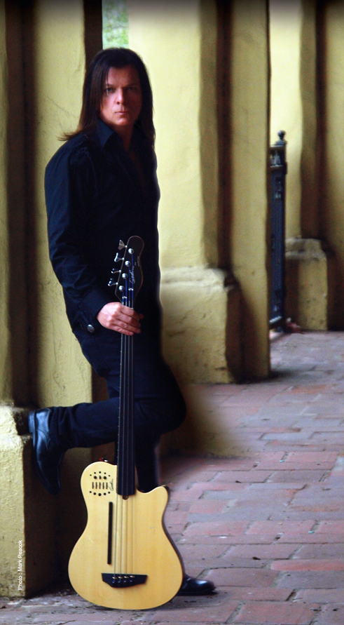 Bassist Chuck Wright